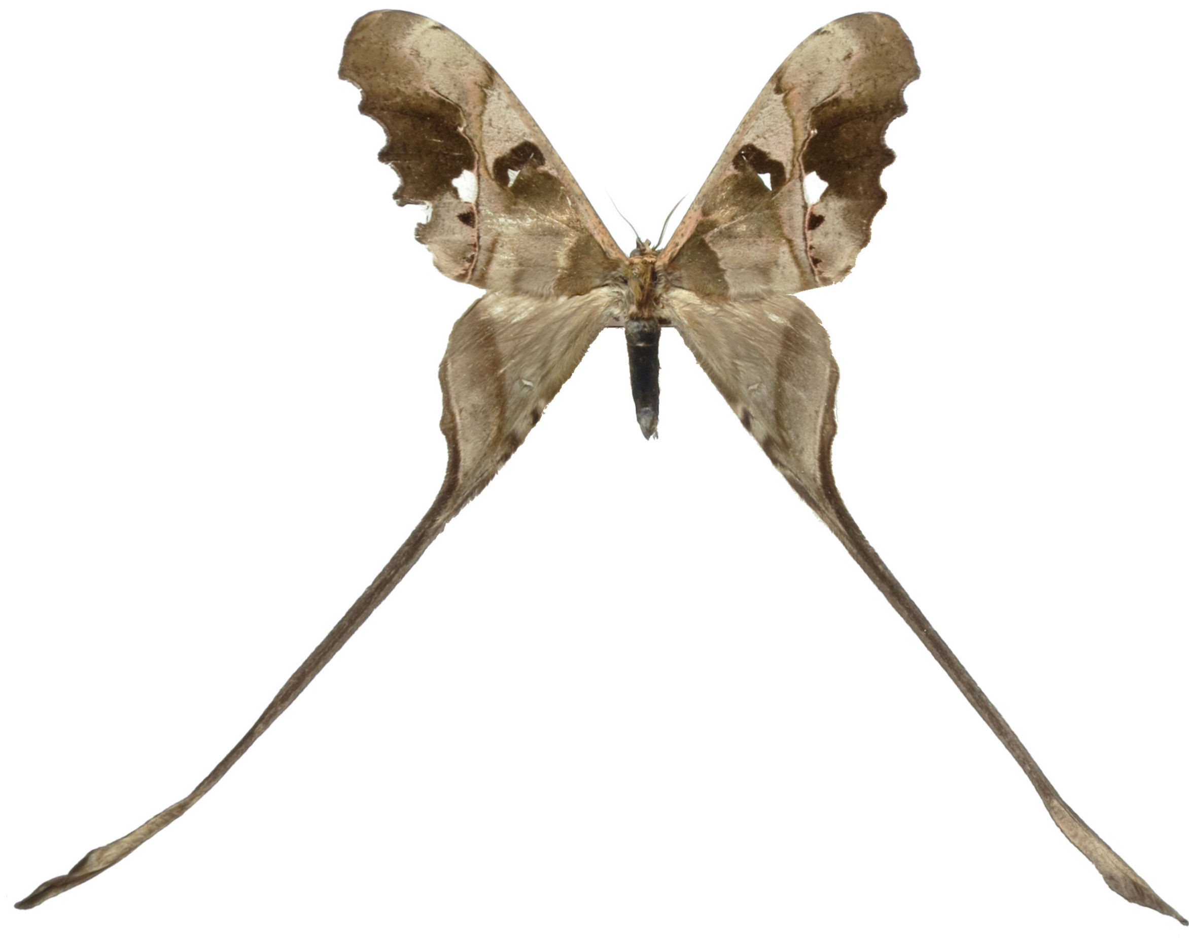 Copiopteryx jehovah from French Guyana